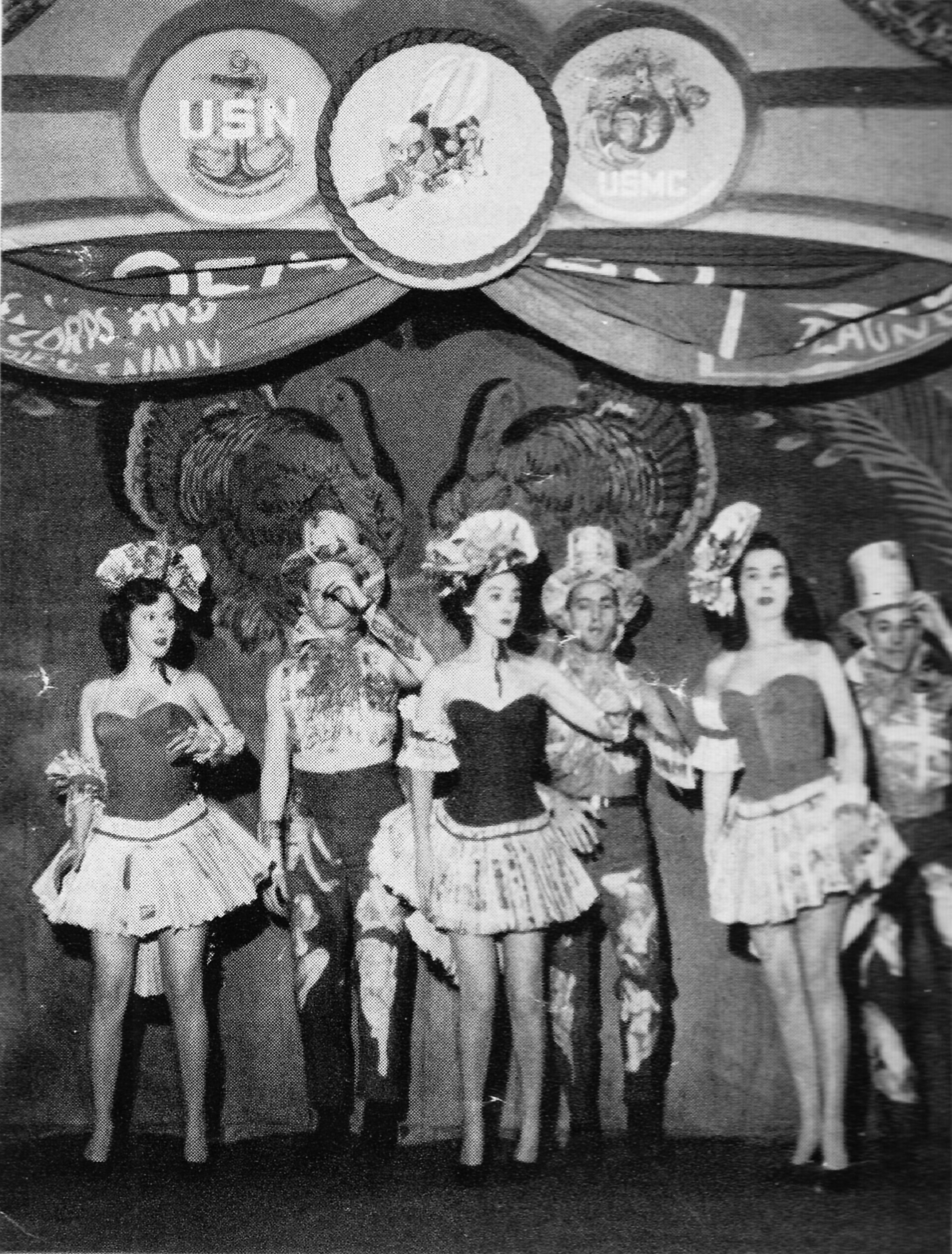 The Thanksgiving Follies in Act 2 of South Pacific.